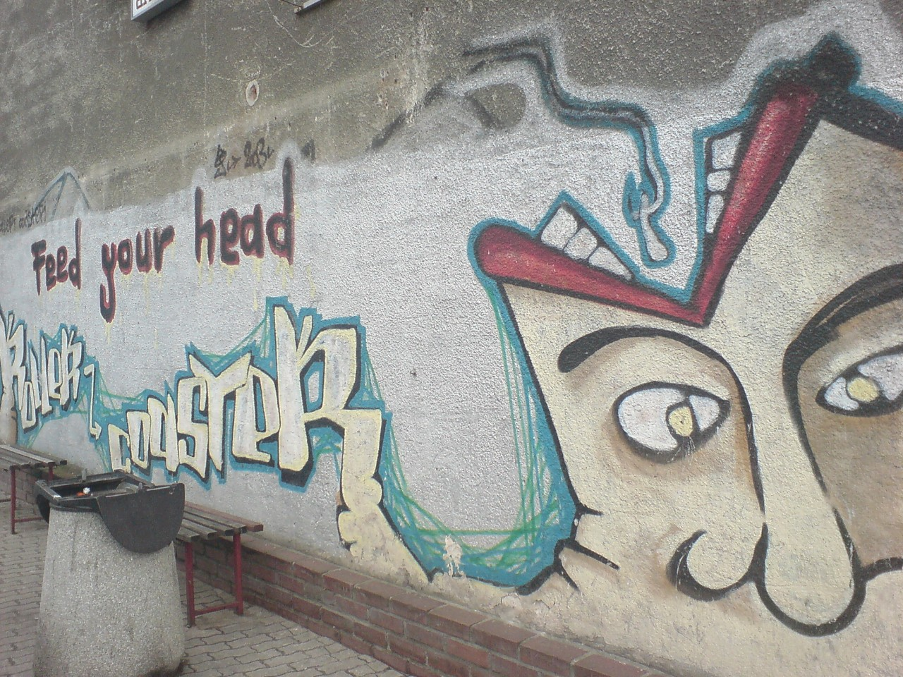 Psychedelic graffiti inspired by Jefferson Airplane song "White Rabbit".